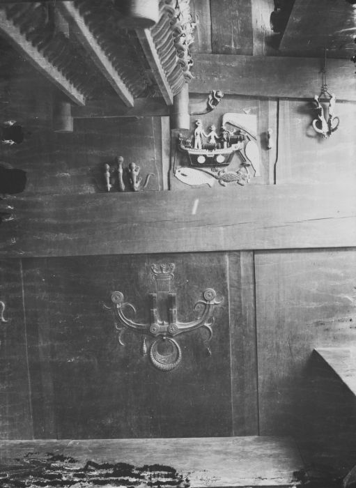 Wood carvings inside a house in Bawomataluwo, Nias